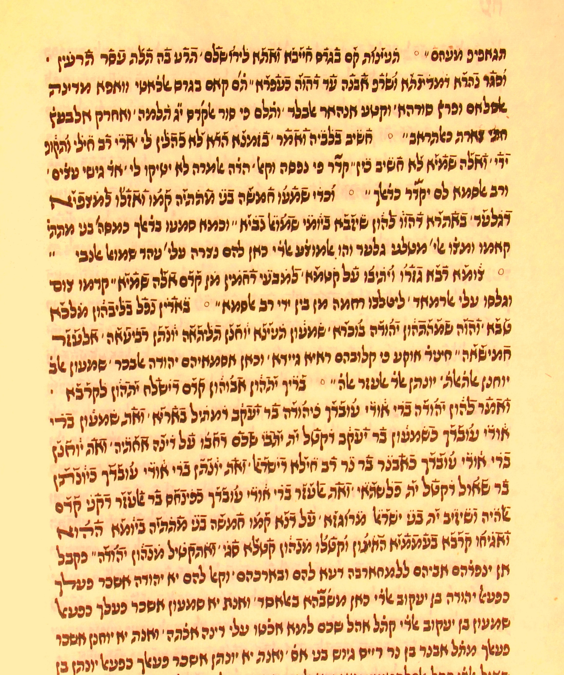 Aramaic Scroll of Antiochus written with Babylonian Supralinear punctuation, including a Judeo-Arabic translation